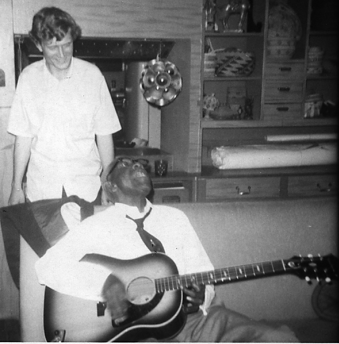 Bob West (Standing) Furry Lewis (with guitar)